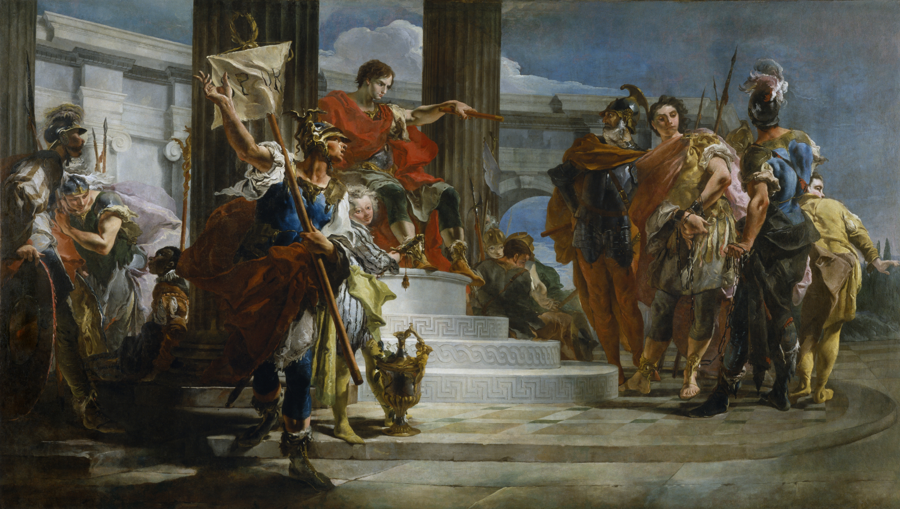 As described by the Roman historian Livy (1st century BC), the youthful Massiva was the nephew of a prince of Numidia in present-day Algeria who had supported Scipio Africanus (a Roman general so known because of his conquests in North Africa) and the Romans in battle. The young Massiva was captured by the Romans in 209 BC and brought before Scipio. When Scipio learned the youth's identity, he sent him back to his uncle laden with gifts. Tiepolo, the greatest Italian history painter of the 18th century, combines dramatic gestures, grand scale, and classical architecture to tell his story of generosity and statesmanship. Details such as the banner with the initials of the Roman state situate the story in Roman history. Under the artistic conventions of the time, North Africans of high status, including Numidians, were generally depicted with European features. The black youth chatting with the soldiers on the left is probably Scipio's servant.